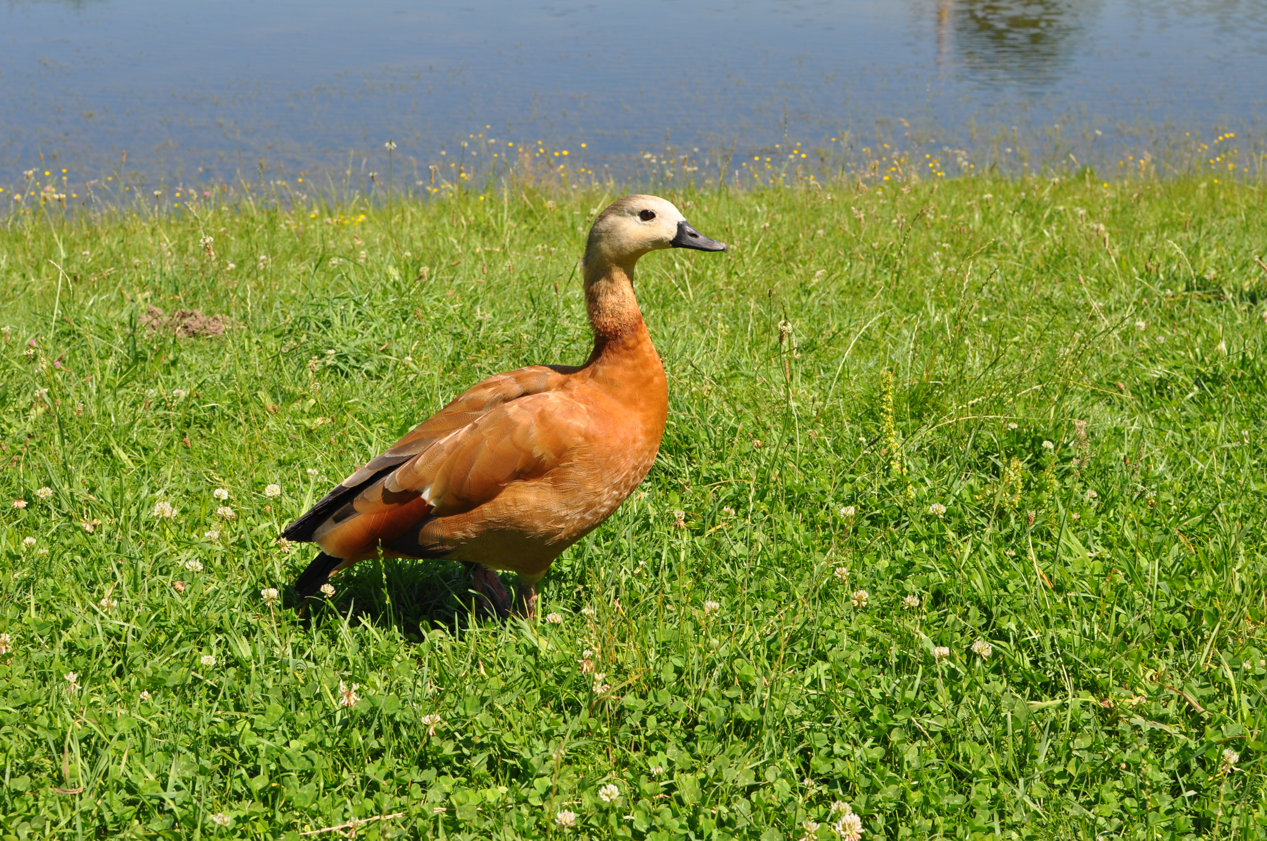 Tadorna ferruginea